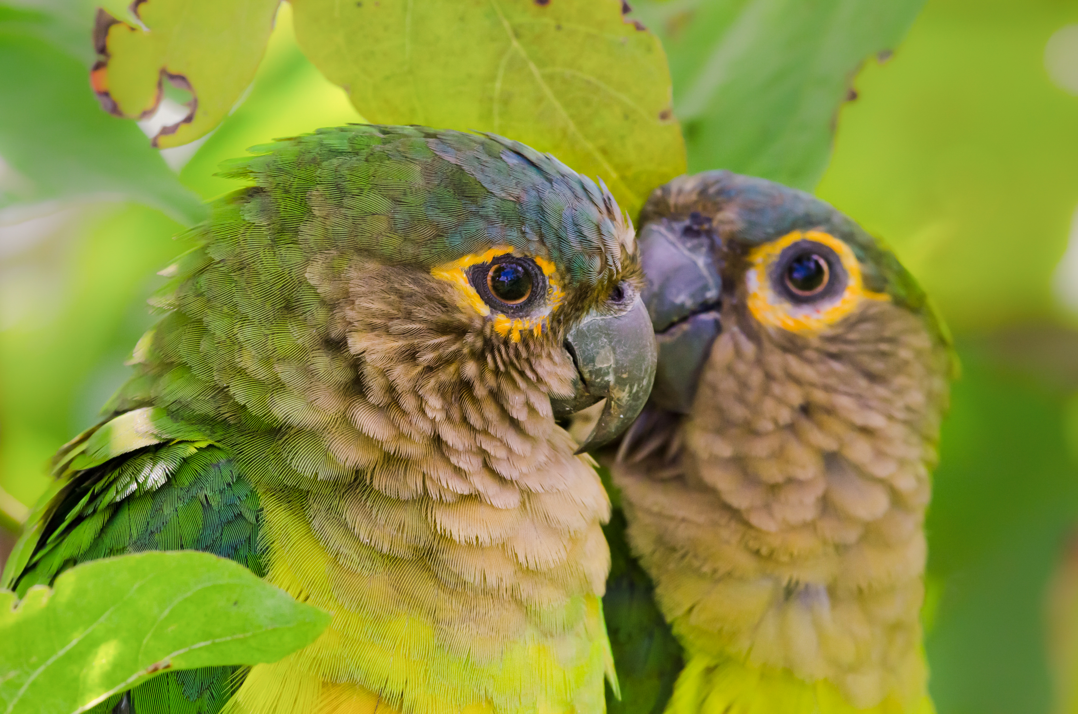 Brown-throated Parakeet couple, Aratinga pertinax, found in Gran Sabana, Venezuela.